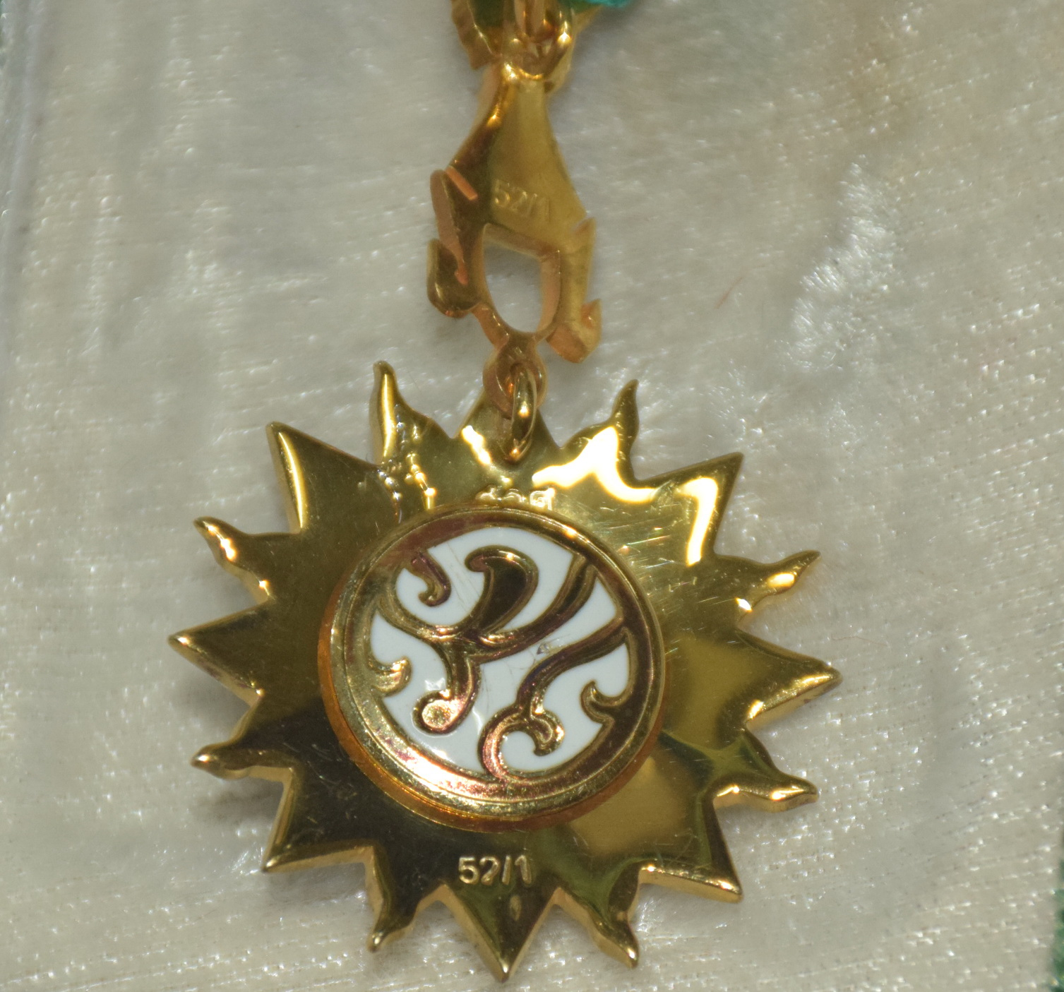 Chatuttha Direkkhunaphon Order of the Direkgunabhorn of Thailand in Wat Kungtapao Local Museum. at Wat Khung Taphao, Ban Khung Taphao, Khung Taphao subdistrict, Mueang Uttaradit, Uttaradit Province, Thailand.)